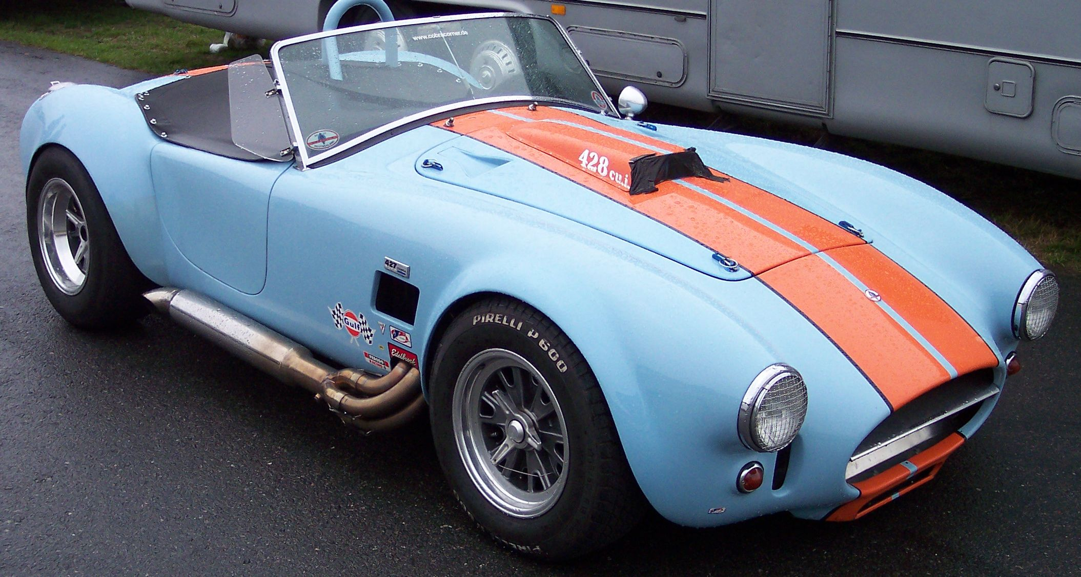 Shelby AC 427 Cobra.